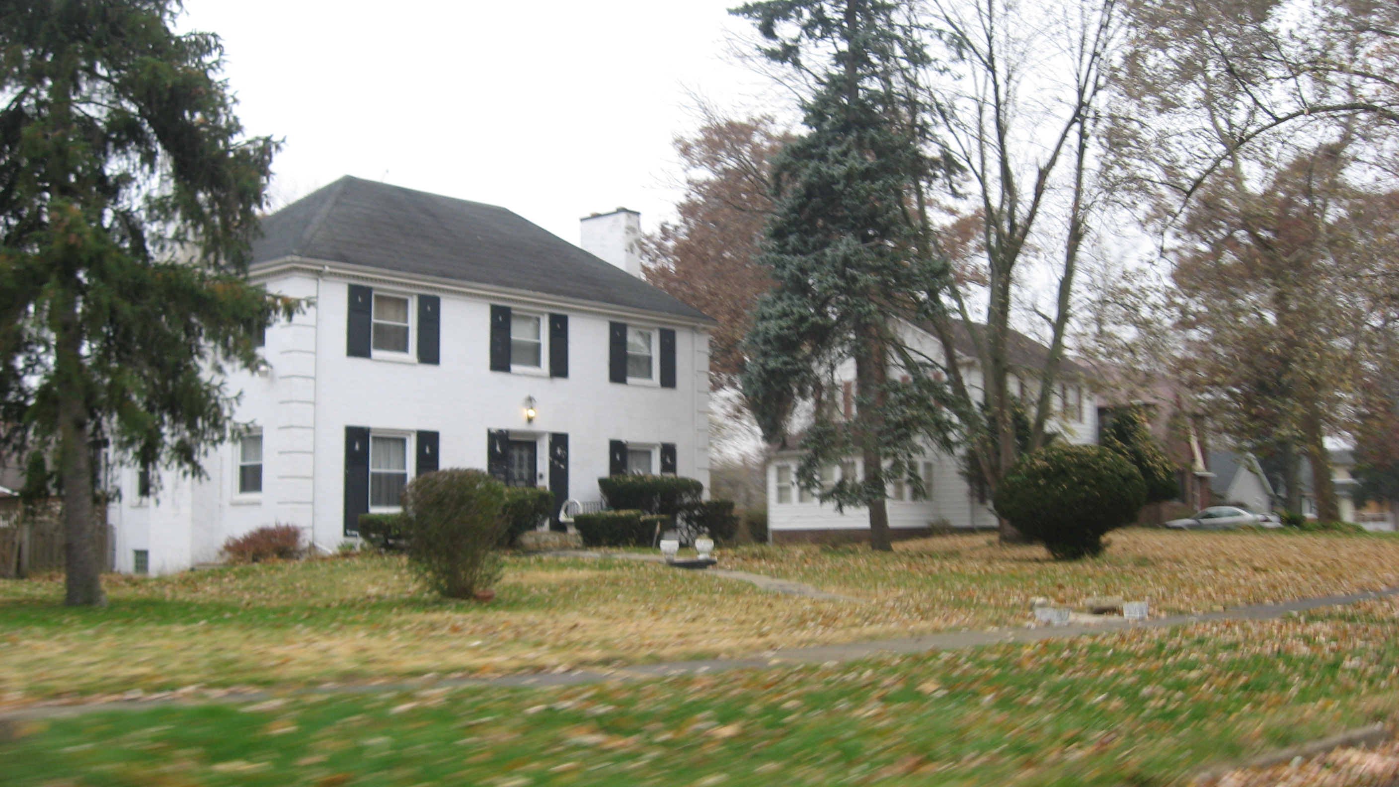 Houses at 225 and 237 W. Forty-sixth Avenue in Gary, Indiana, United States. Built in 1936 and 1926 respectively, they are part of the Morningside Historic District, a historic district that is listed on the National Register of Historic Places.